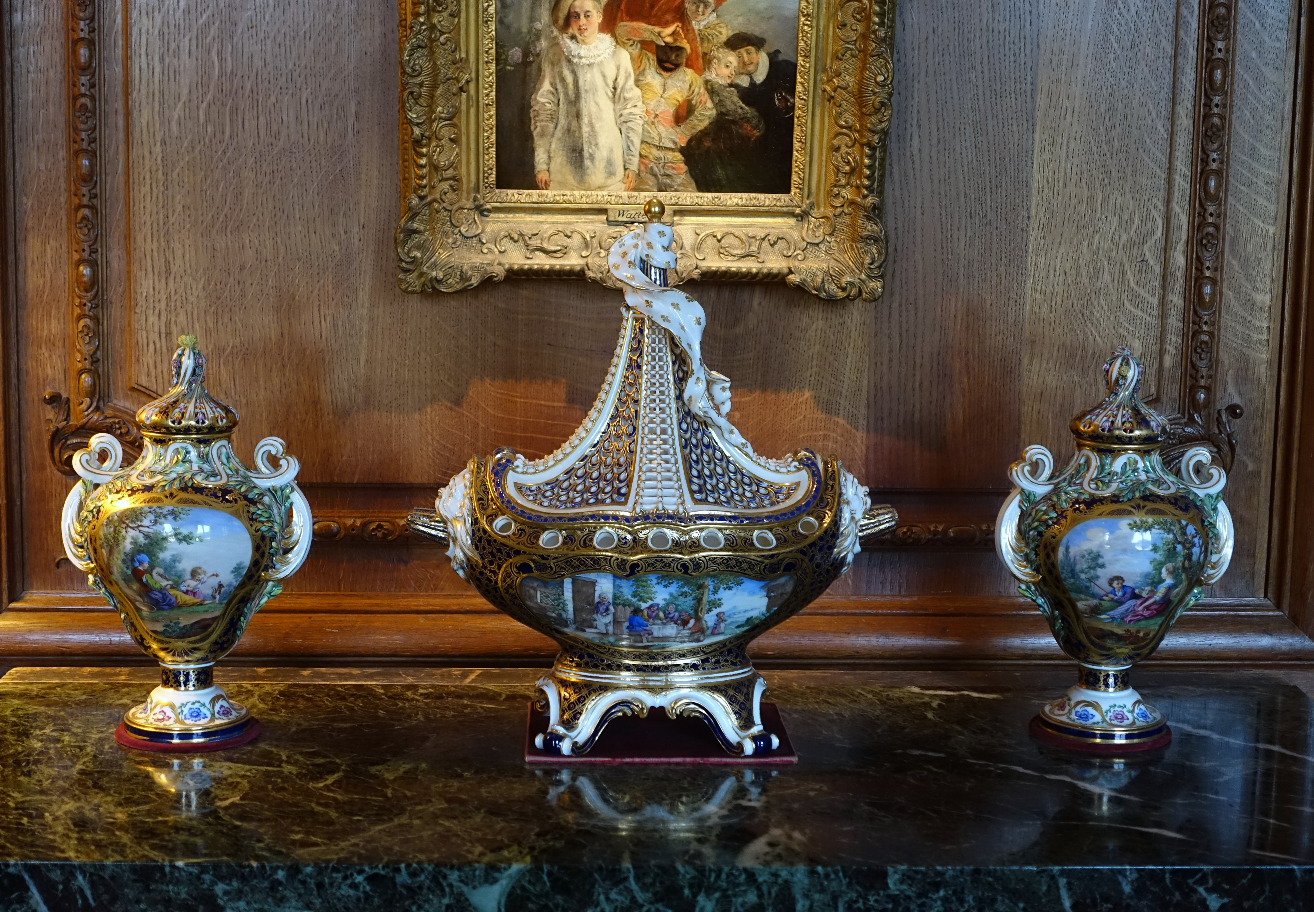 Items in Waddesdon Manor - Buckinghamshire, England.